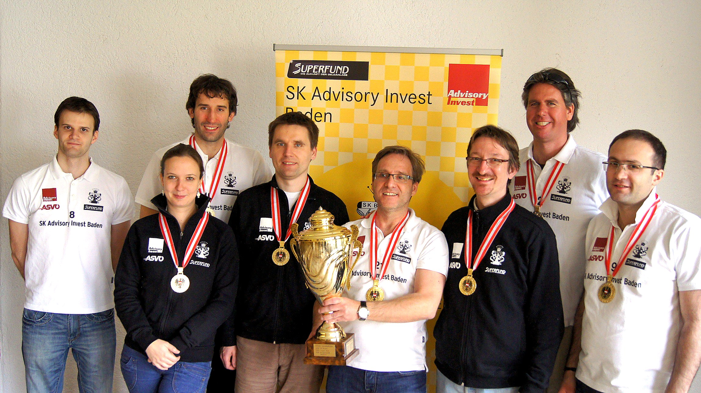 The austrian champion in team-chess - SK Baden. The photo shows (frim left to right): Csaba Balogh, Veronika Schneider, Alojzije Janković, Bartosz Soćko, Martin Herndlbauer, Reinhard Lendwai, Sebastian Siebrecht und Dawit Schengelia.